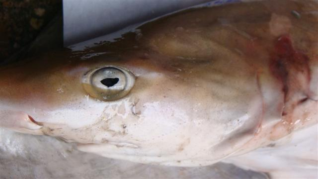 Sicklefin weasel shark (Hemipristis microstoma) at Ranong Fishing Port, Thailand